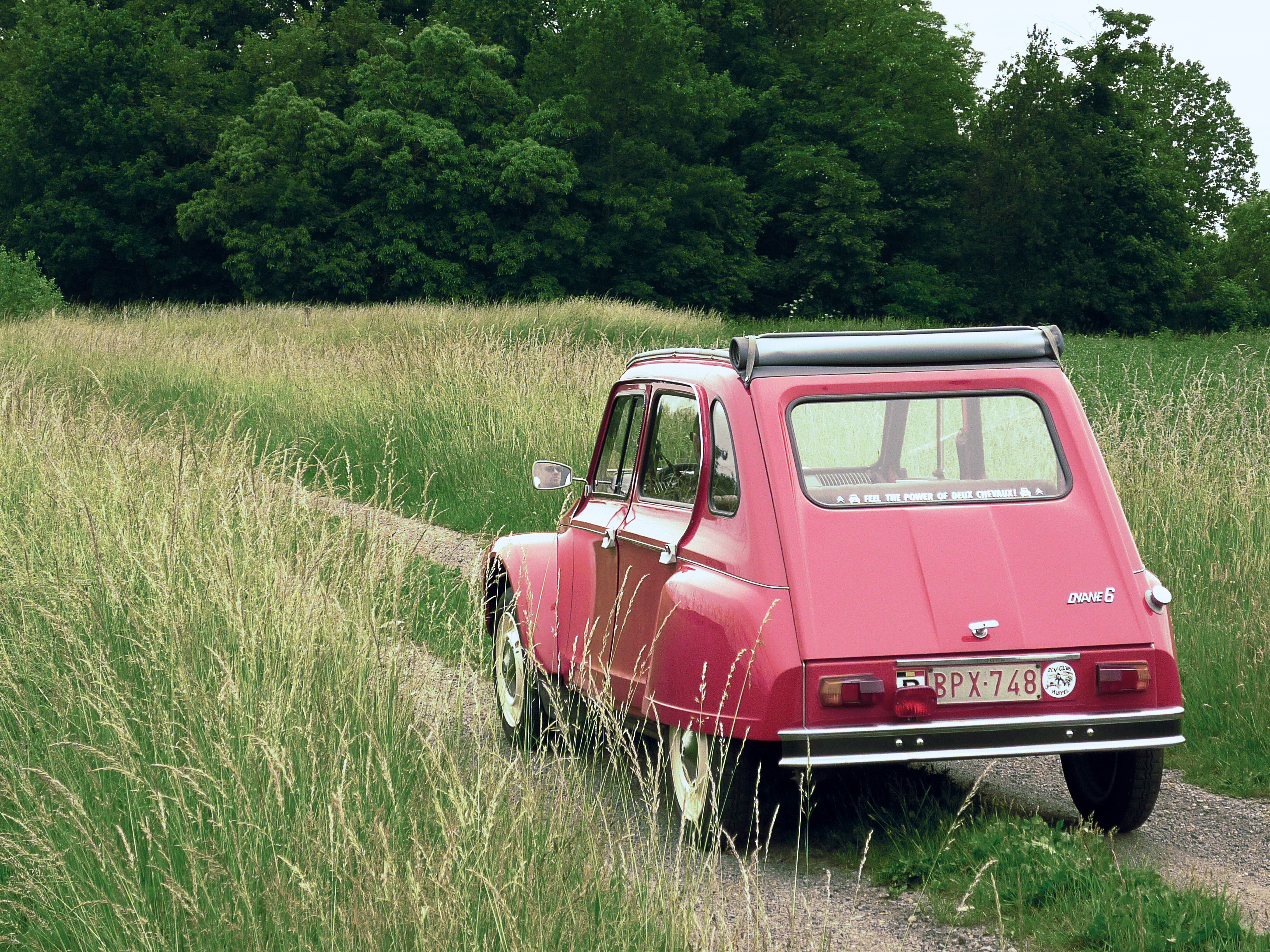 Dyane 6 - 1972 - owner Frank Smets